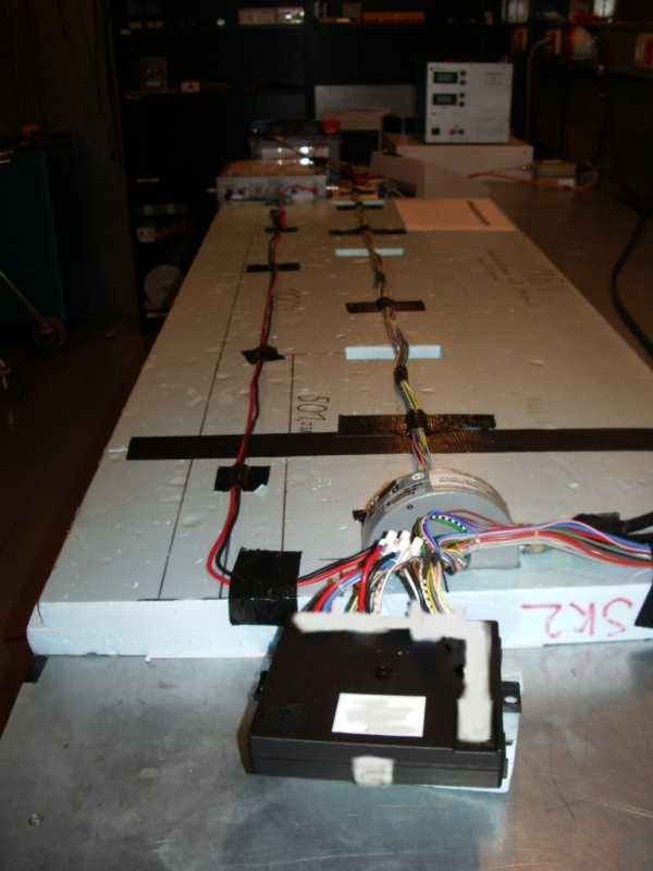 EMC Lab testing an ECU with inductive BCI methode